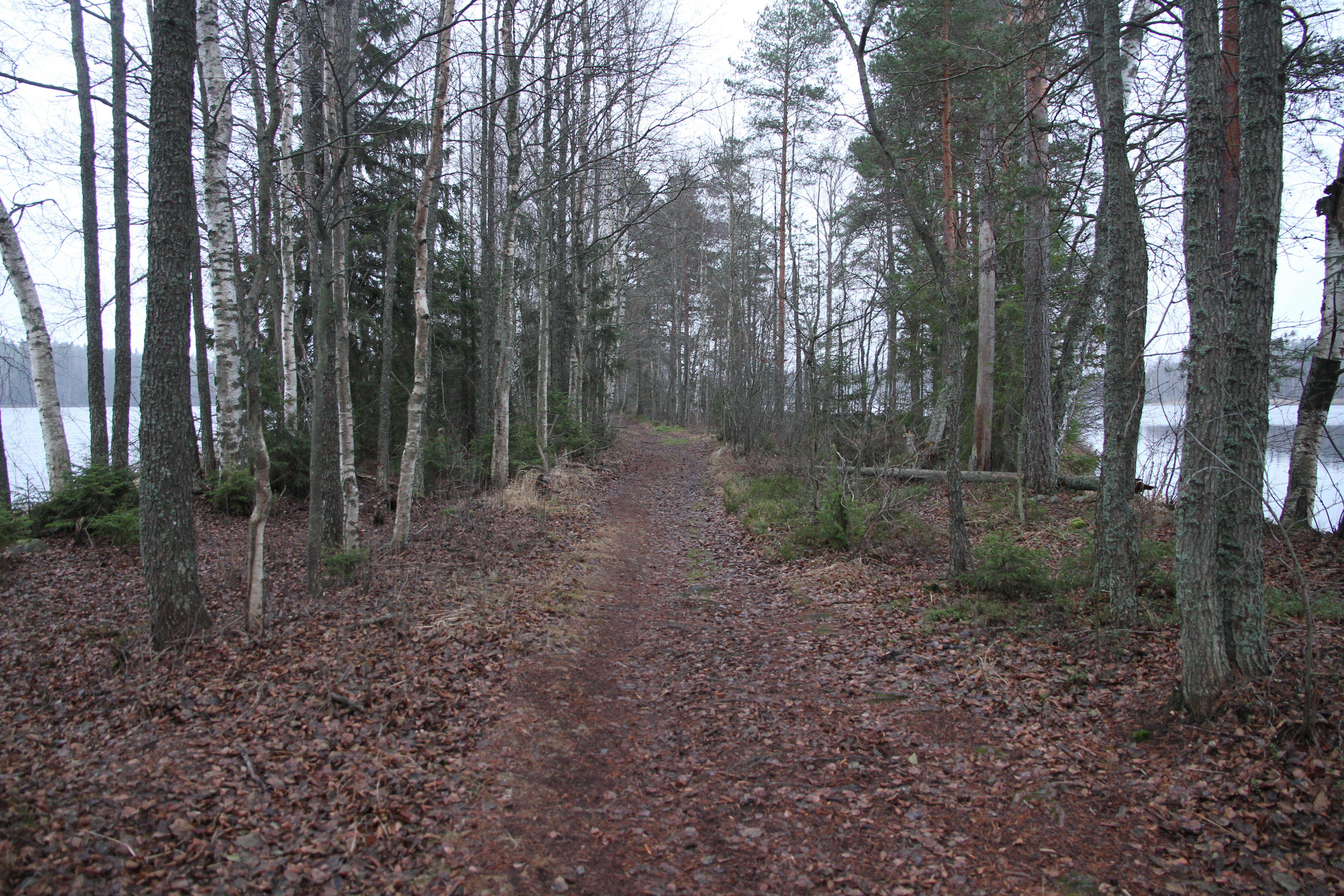 Liesjärvi National Park, Finland.